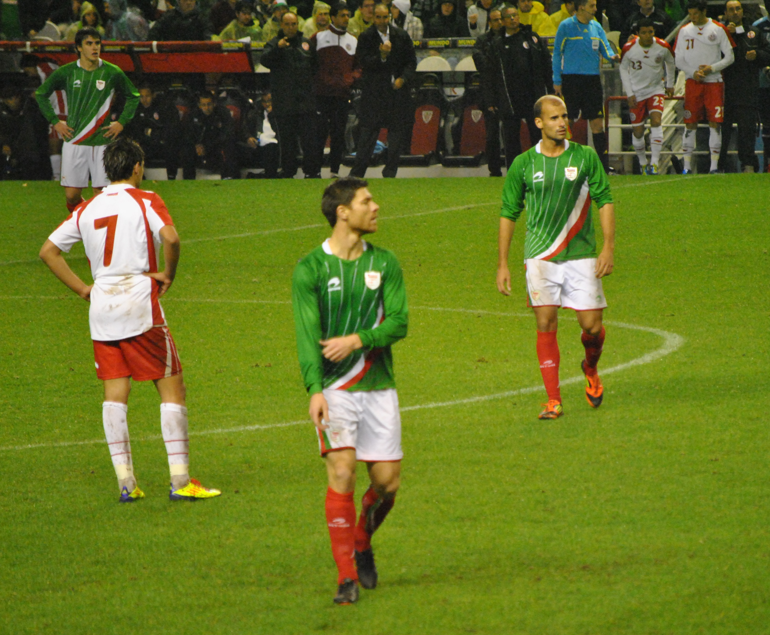 Xabi Alonso playing for Basque Country.